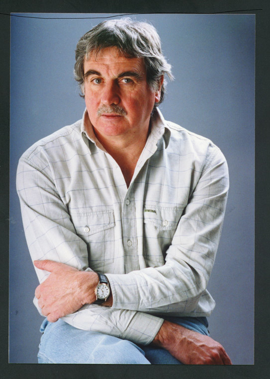 Photo of Fernando Sorrentino, Argentine writer born on November 8, 1942 in the city of Buenos Aires.